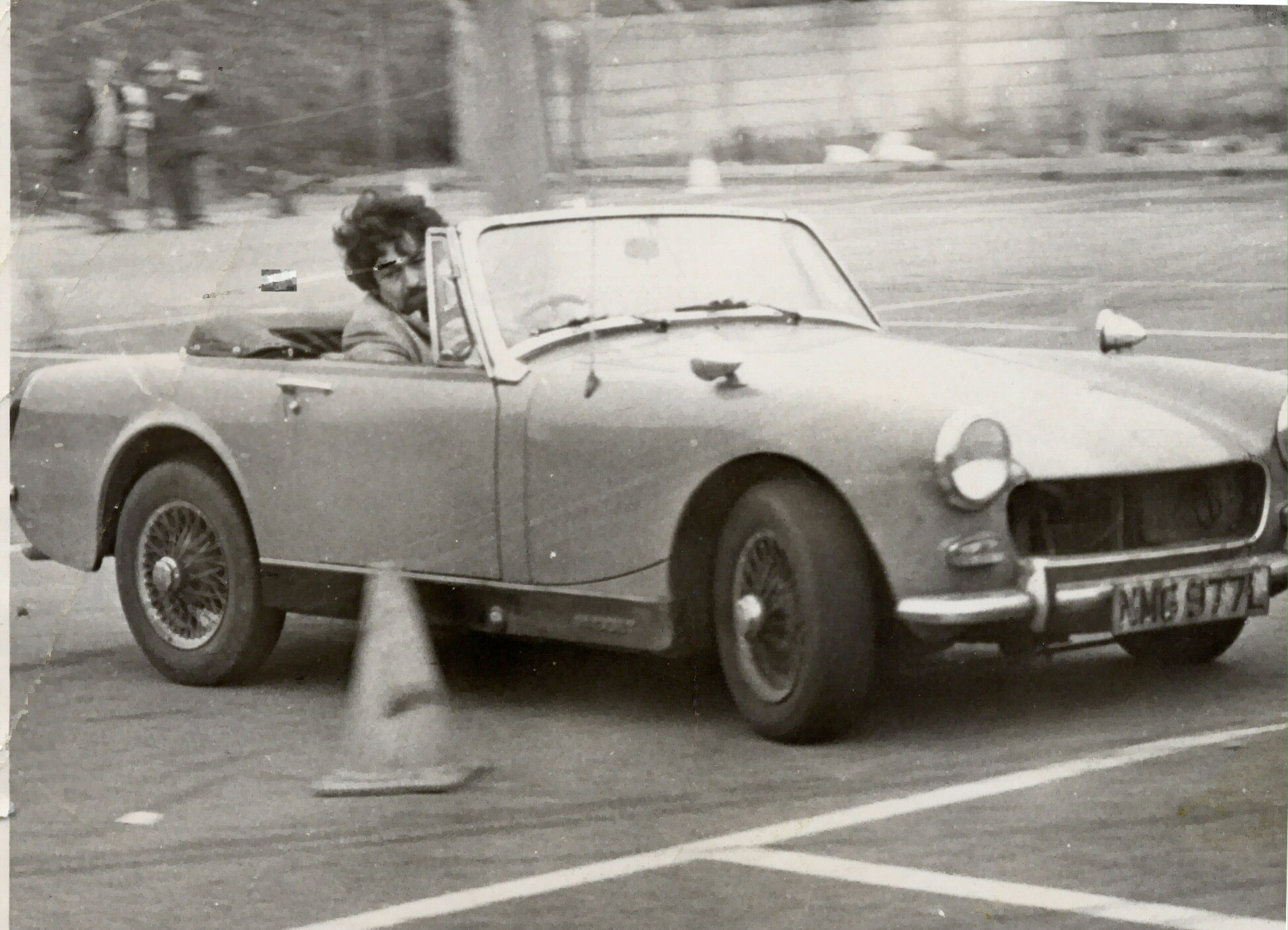 Derrick Rowe, Own Car